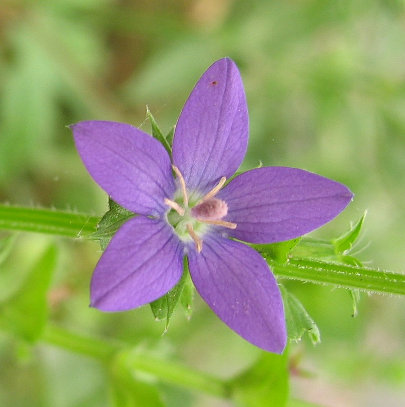 Photograph of Triodanis perfoliata (syn. Specularia perfoliata), taken in Machida city, Tokyo, Japan.